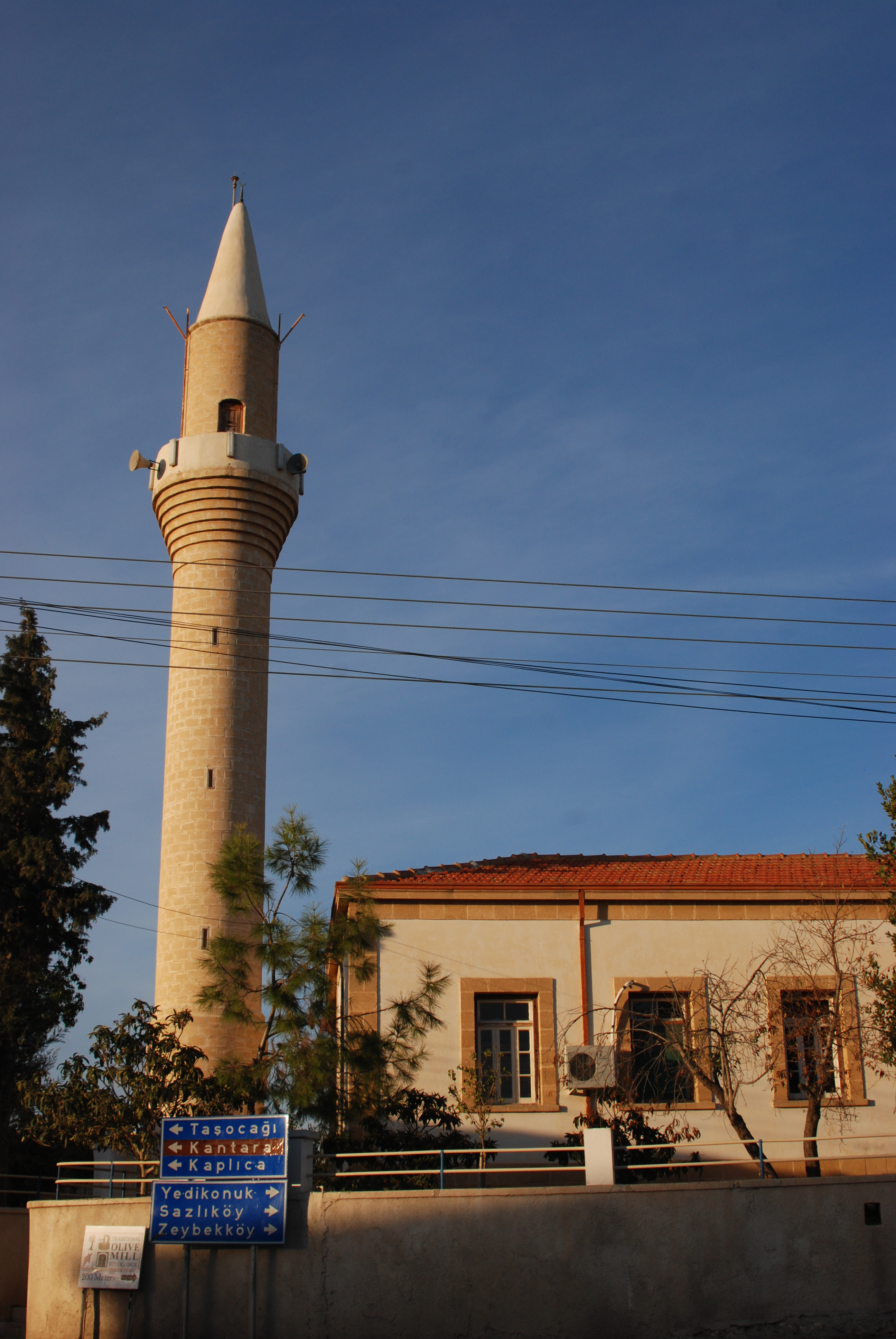 Komi (Komi Kepir) Komi (Komi Kepir) is a community of the region of Karpasia,. Northern Cyprus Geographical Location: It lies 33 km North of the town of Ammochostos at a height of 90m.